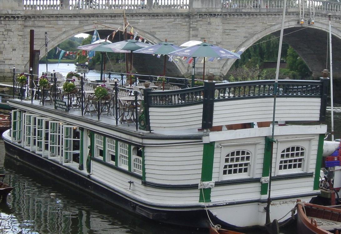 The former barge of Jesus College, used by spectators and crews during rowing races. It is now a restaurant on the River Thames at Richmond.